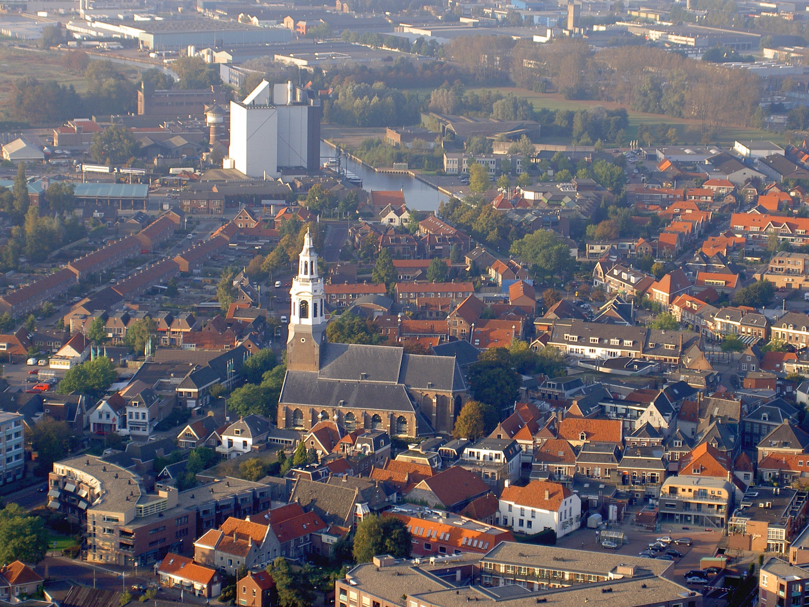 Aerial Photograph of Nijkerk, the Netherlands. Old city centre with Grote Kerk.